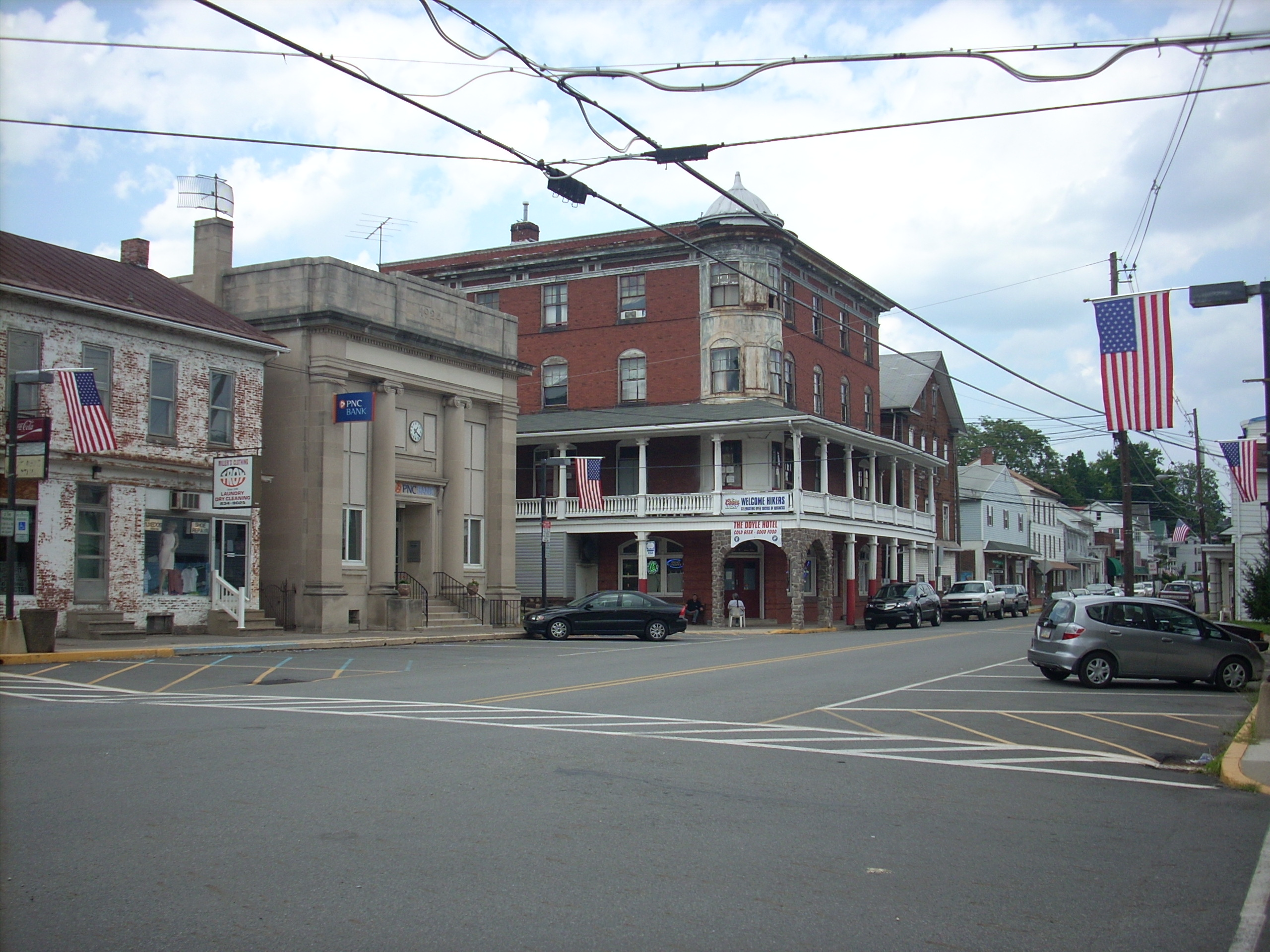 Duncannon, Pennsylvania near where the Appalachian Trail crosses the Susquehanna River